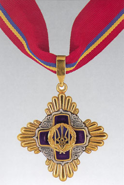 Ukrainian National Award - the order "For Merit" (1st degree)